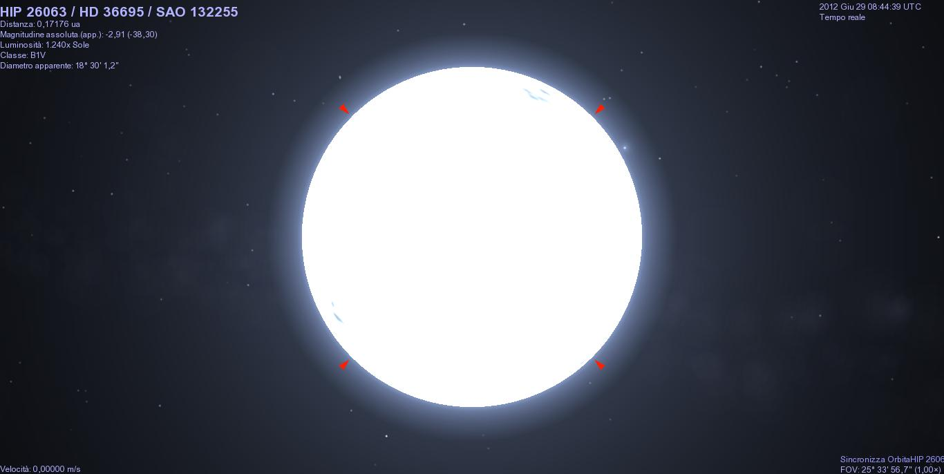 HD 36695 in Celestia